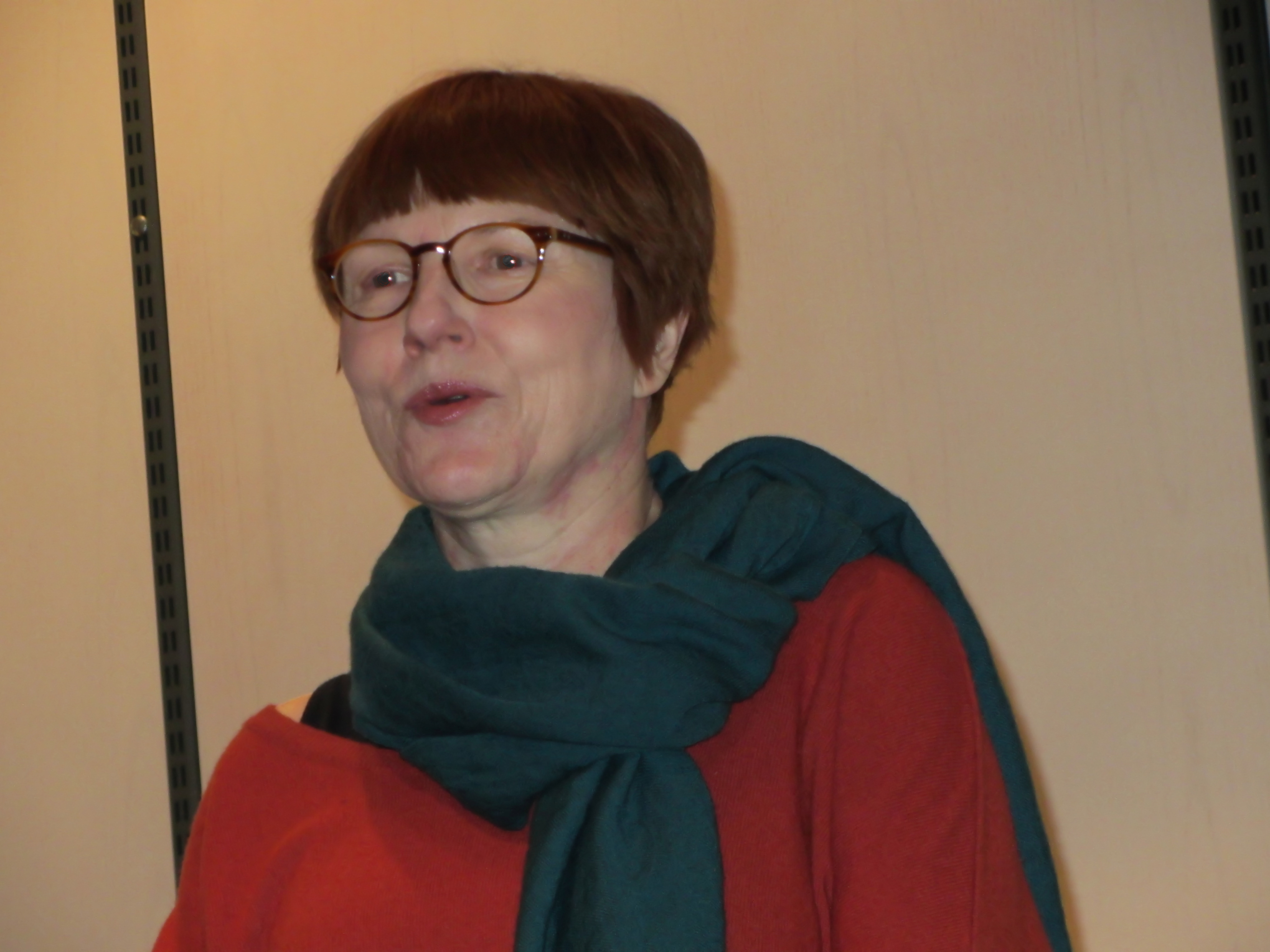 Finnish writer and illustrator Kristiina Louhi speaking about her books at Kerava Townlibrary in January 2013.